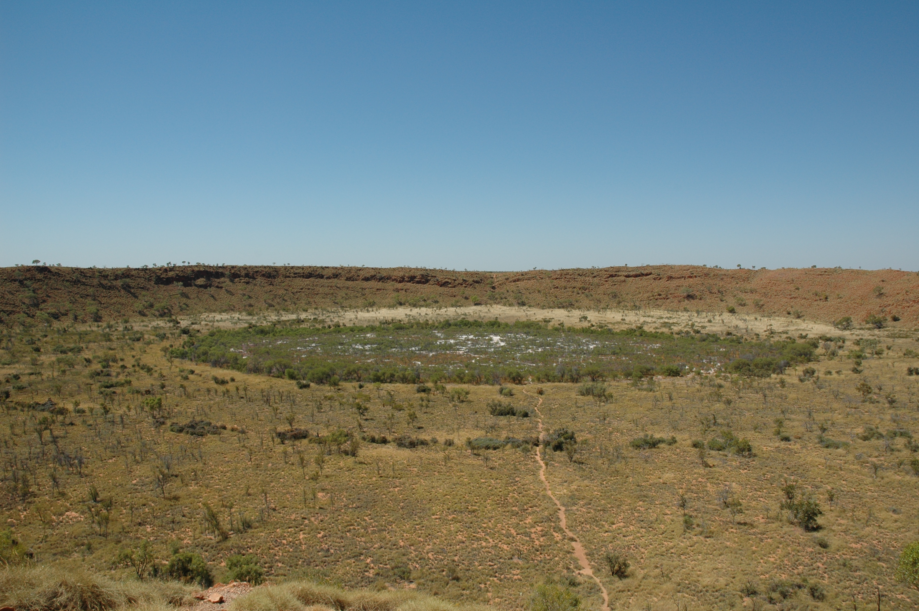 Meteorite Crater